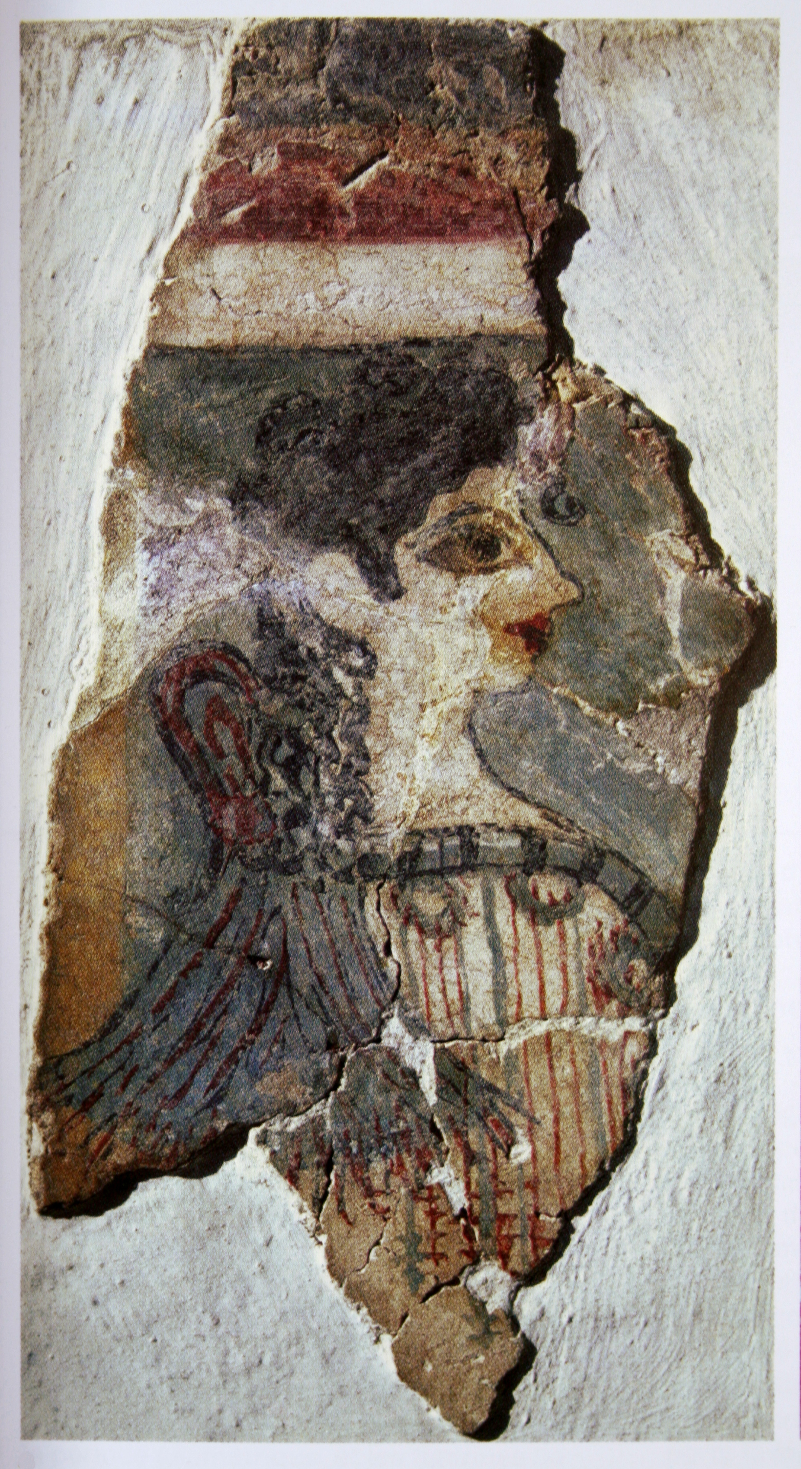 The "Parisian", fresco, Knossos, Greece. Neopalatial period 1350 B.C. Herakleion Archaeological Museum. Height: 25 cm.